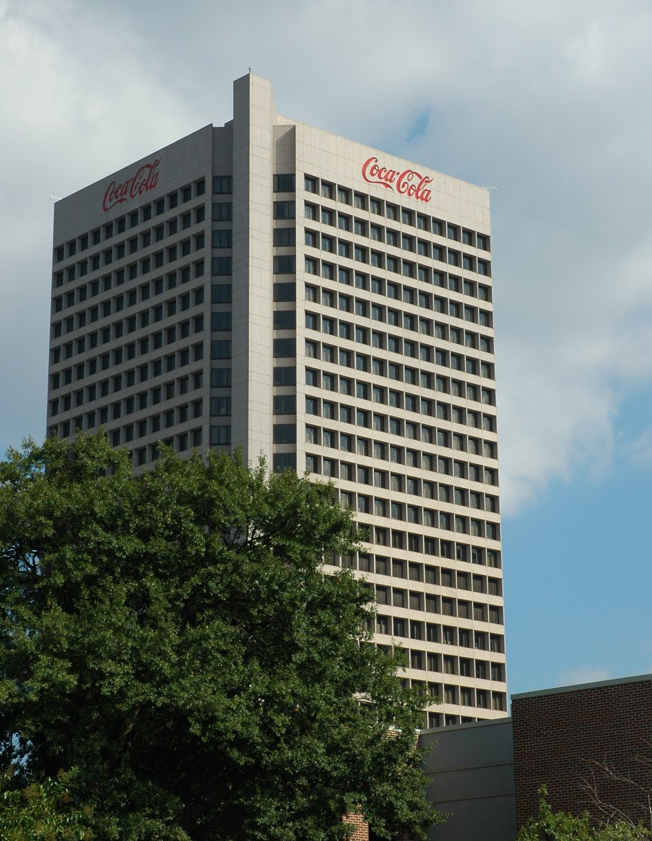 The Coca-Cola Company corporate headquarters in Atlanta, Georgia; taken 09/05/2004 by J. Glover (AUtiger).